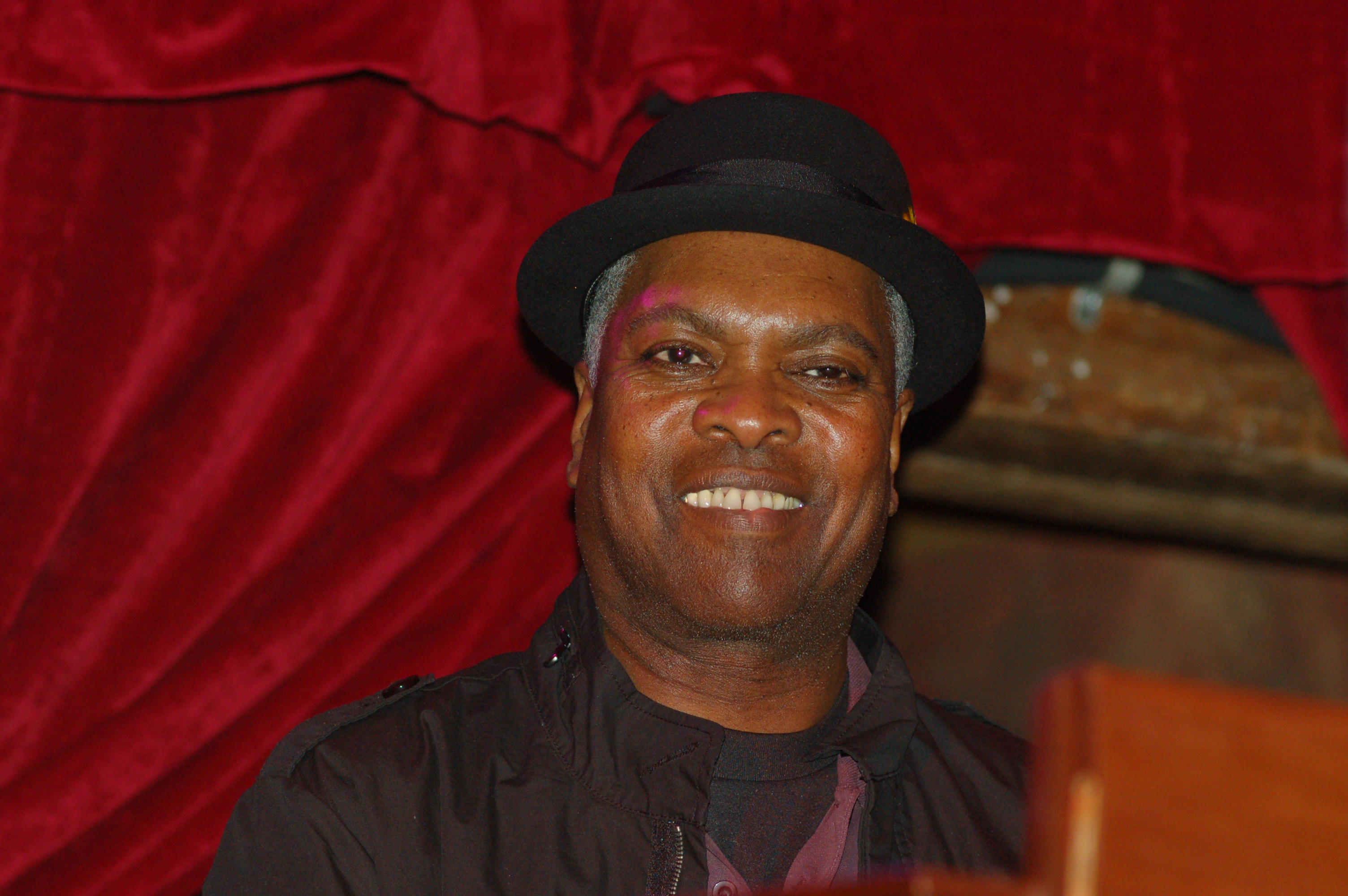 Live at Republic